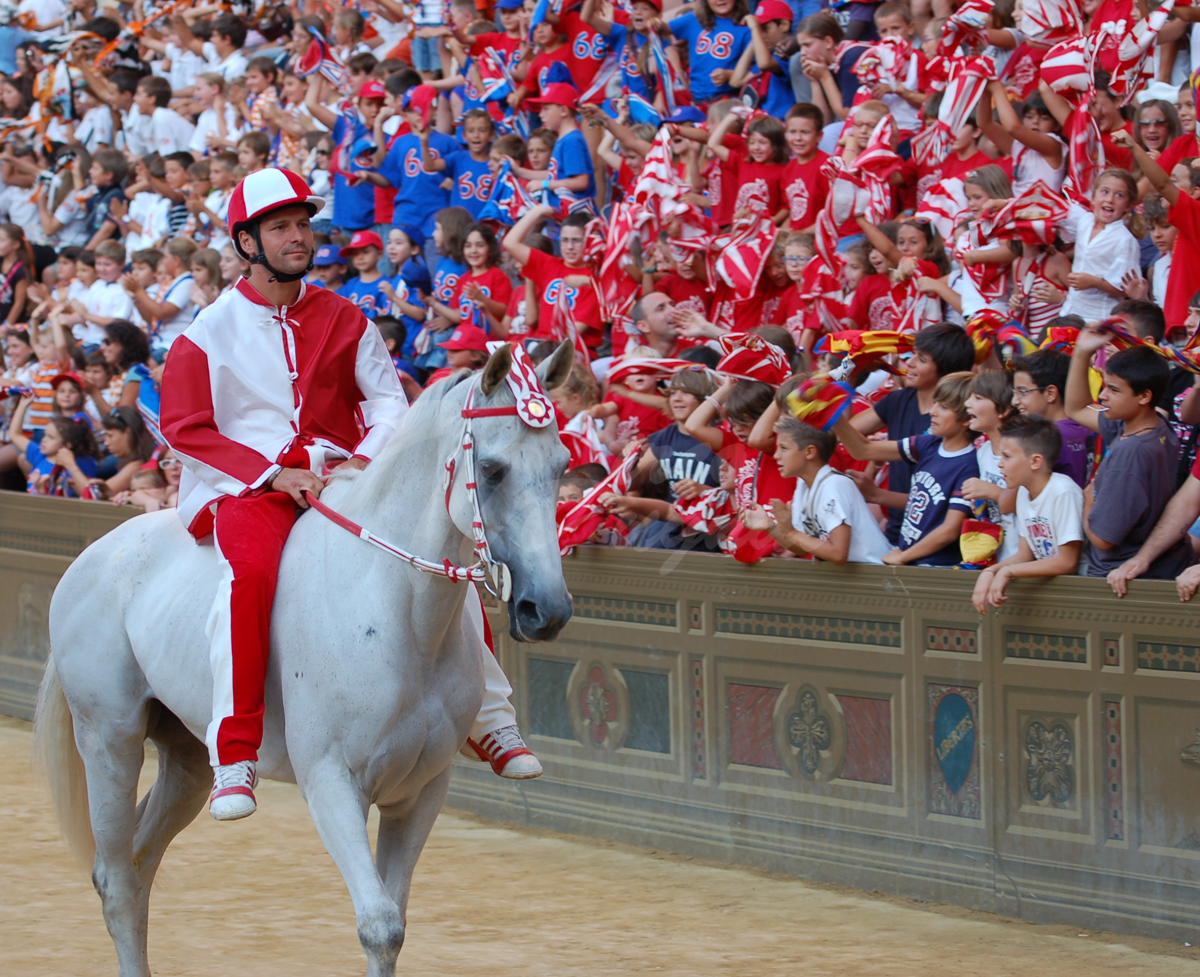 Palio di Siena Agosto 2011 I COLORI DELLA FESTA I vincitori visti da Mirco Mugnai " This work is free and may be used by anyone for any purpose. If you wish to use this content, you do not need to request permission as long as you follow any licensing requirements mentioned on this page.